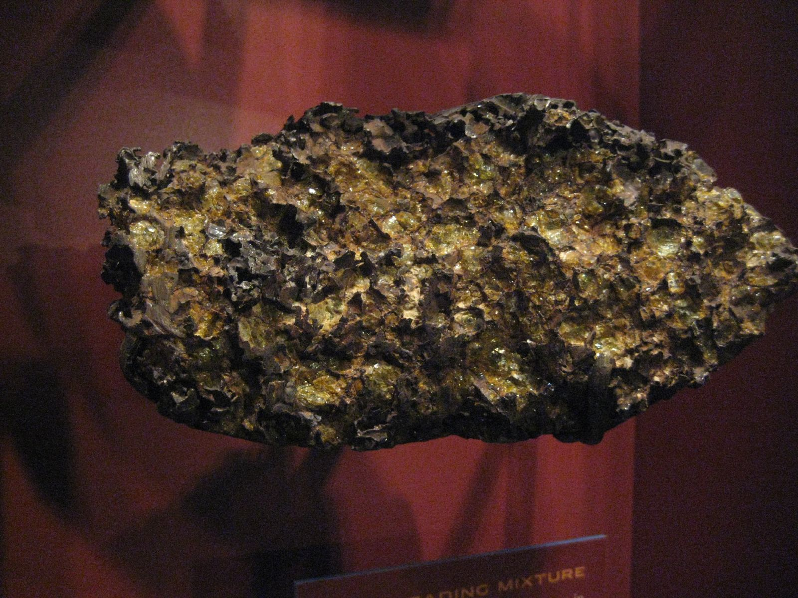 Imilac pallasite. Found 1822, Atacama Desert, Chile. American Museum of Natural History.